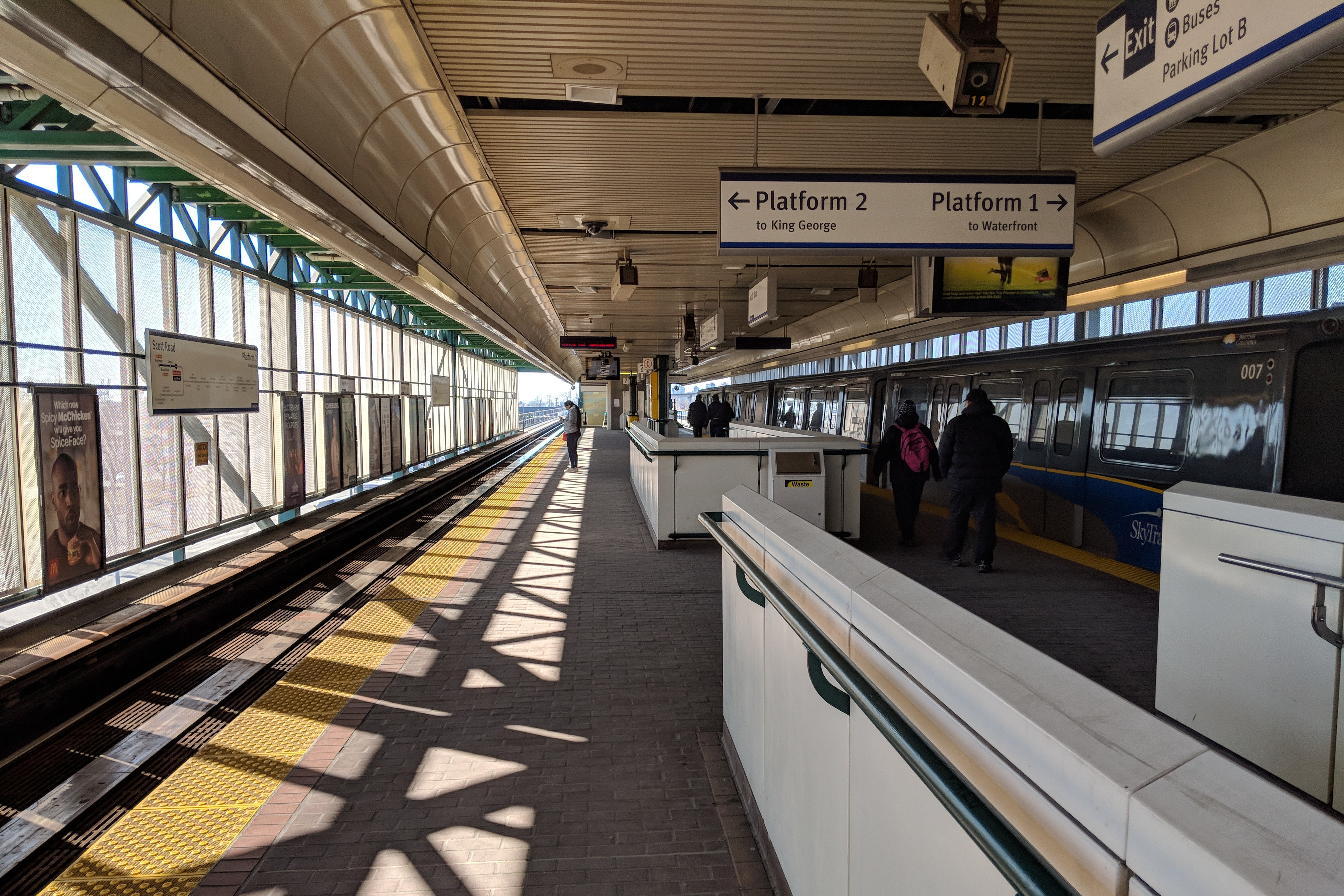 Platform level at Scott Road station. A westbound train with service to Waterfront station can be seen at Platform 1.